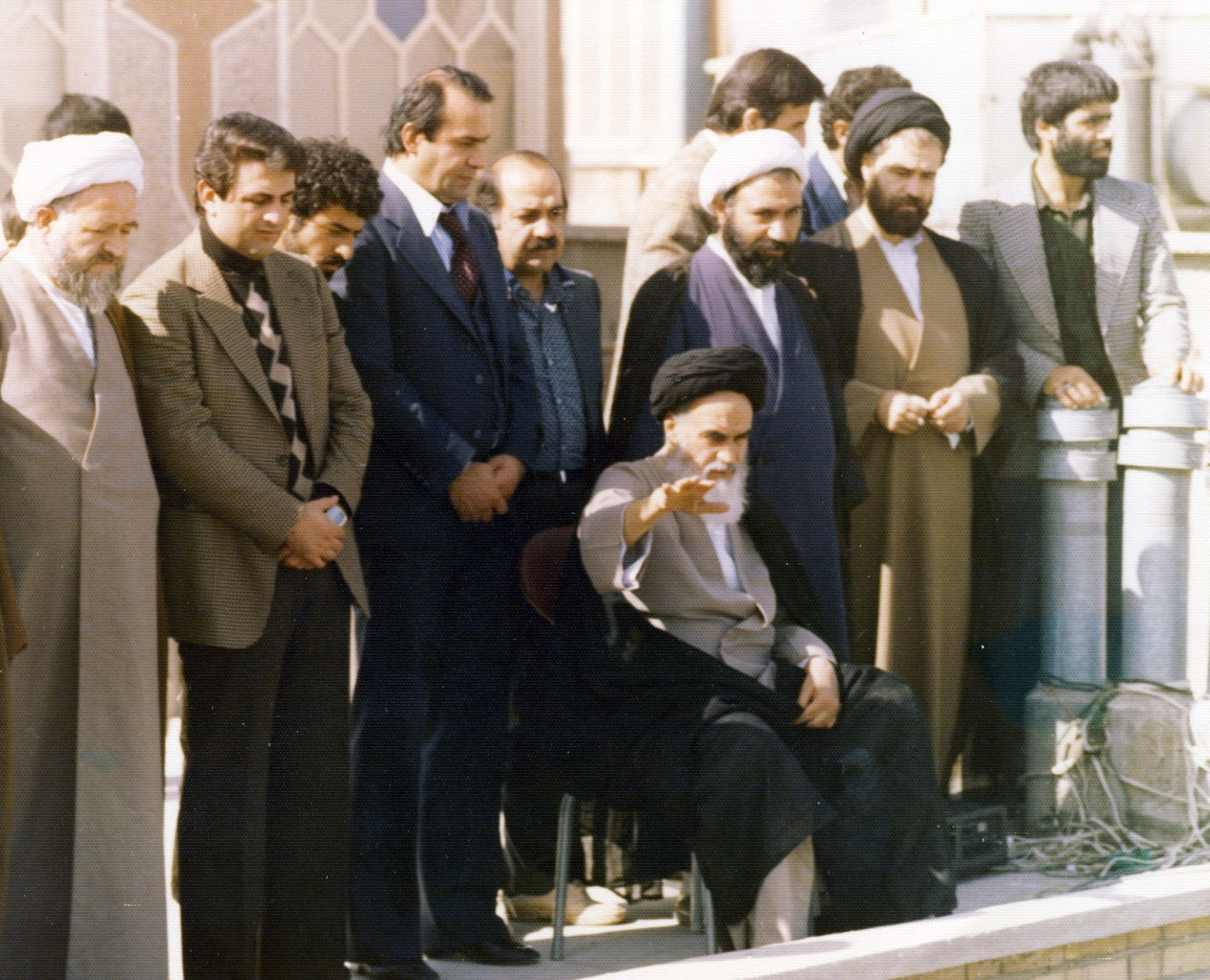 Ruhollah Khomeini on the roof of his residence, Qom